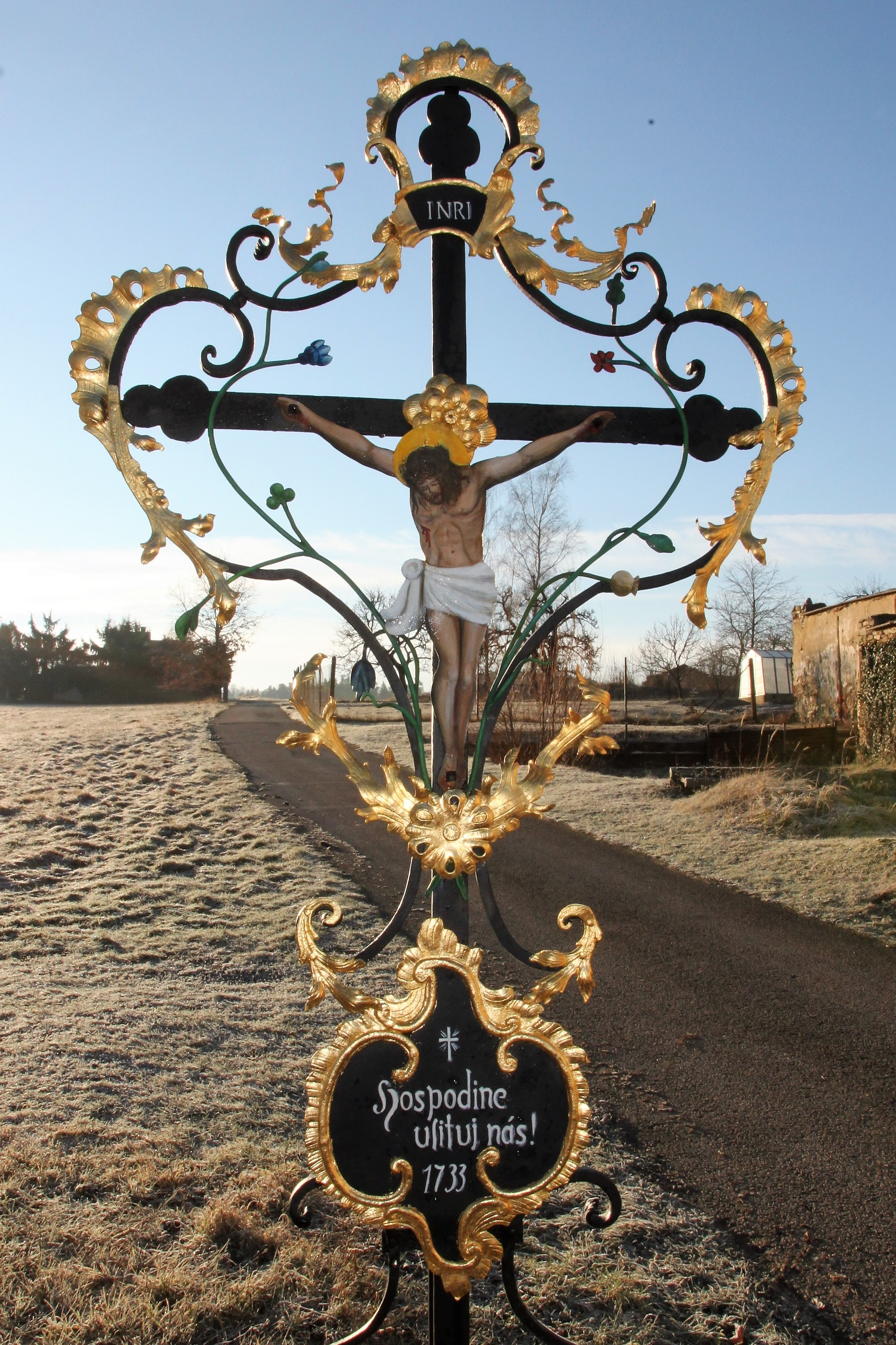 Rococo wrought iron wayside cross from the 18th century in Březí, České Budějovice District, South Bohemian Region, Czechia.